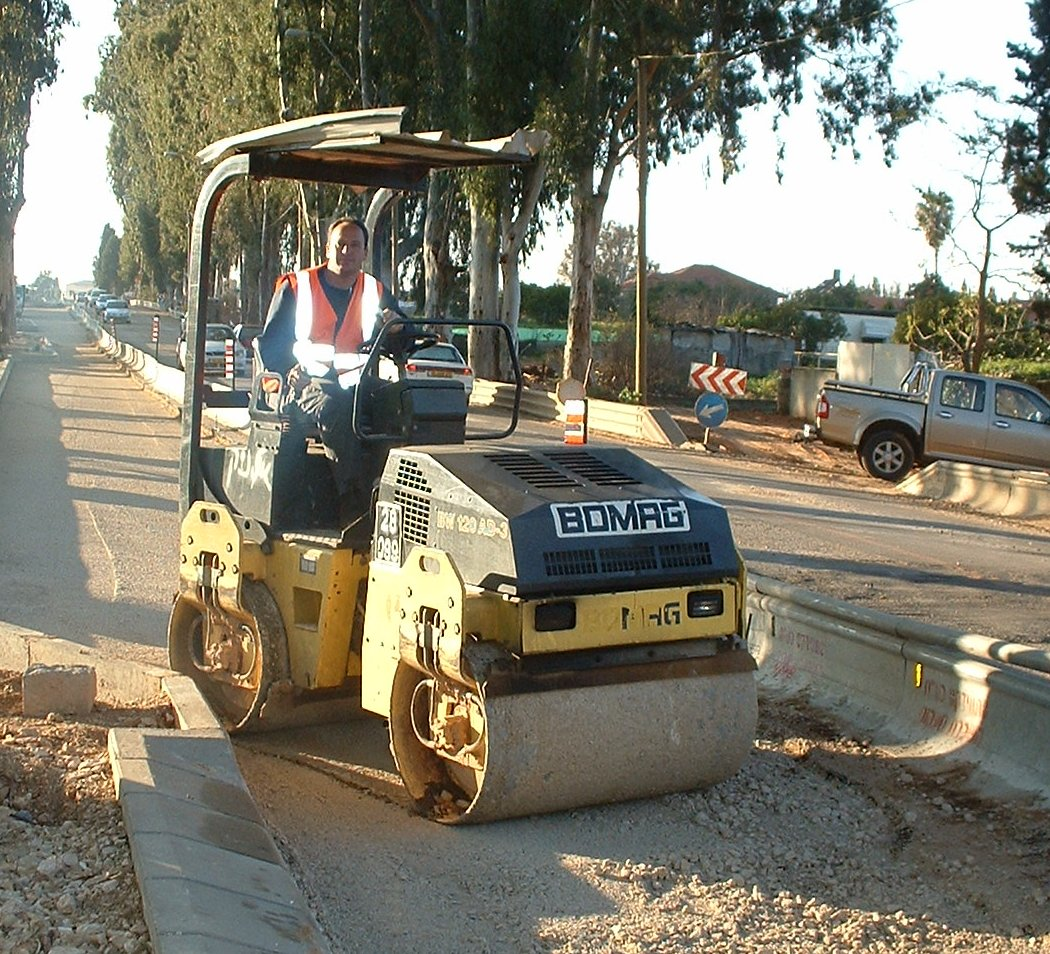 A small ride-on road roller with articulating-swivel in Pardes Hanna-Karkur, Israel, photographed working on Derech HaBanim.